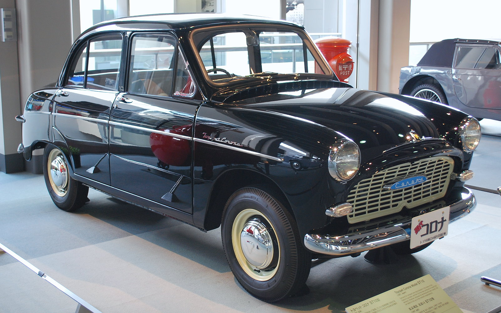 1st generation Toyopet_Corona Model ST10